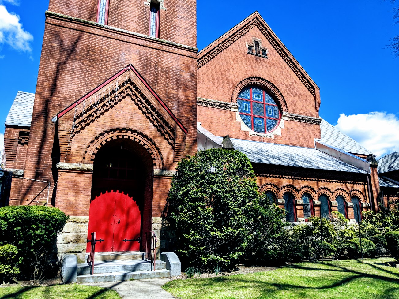 Protestant Reformed Dutch Church of Flushing (Bowne Street Community Church) is a 18th Century (B.1891-92) Romanesque Revival style, especially notable for its prominent corner tower, decorative brickwork, and opalescent stained-glass windows.